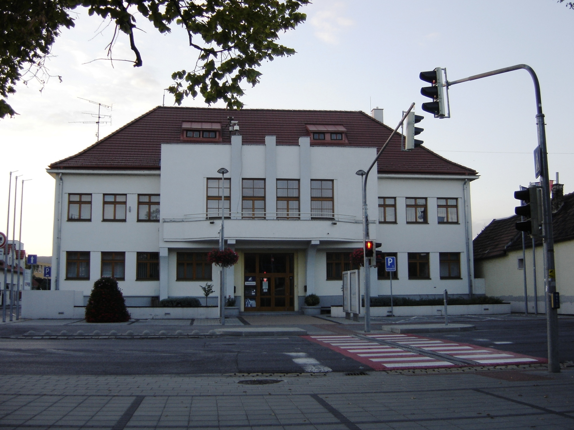 Vajnory, Bratislava, Slovakia